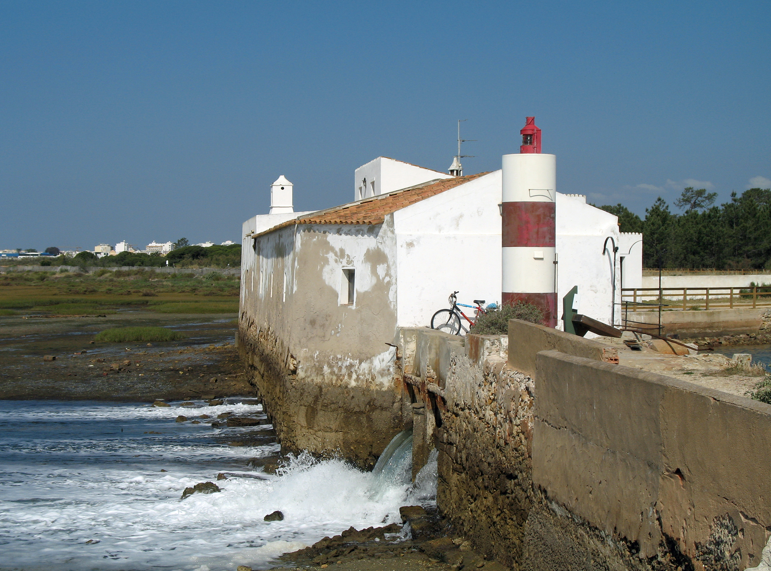 Olhão (Algarve, Portugal), Natural Park Ria Formosa, tide mill. Moinho light at Olhão, Canal da assetia